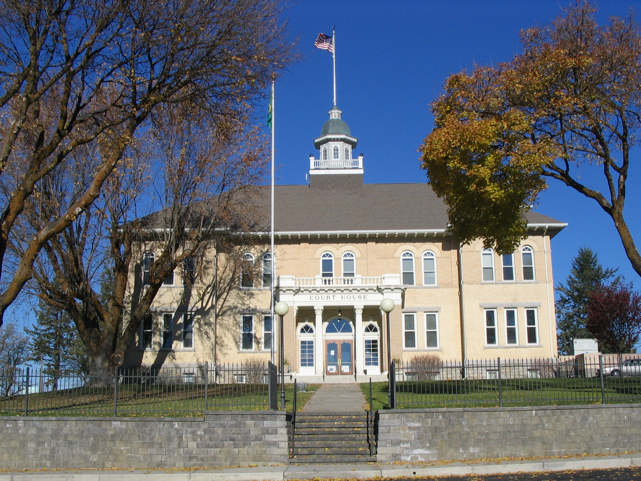 The Lincoln County Courthouse was built in Davenport in 1897 following the removal of the county seat from Sprague, which had held the seat since the county's creation in 1883. The courthouse was badly damaged by an arson fire in the late 1990s. It was rebuilt and enlarged. To accommodate more offices, the roof was raised slightly.